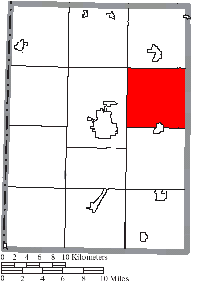 Map of the municipal and township boundaries of Preble County, Ohio, United States, as of the 2000 census, with the location of Twin Township highlighted. Township borders are shown only in unincorporated areas in order to differentiate incorporated and unincorporated areas more clearly.